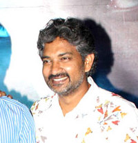 Nani at the special screening of 'Makkhi' With Ajay Devgn and S.S. Rajamouli.